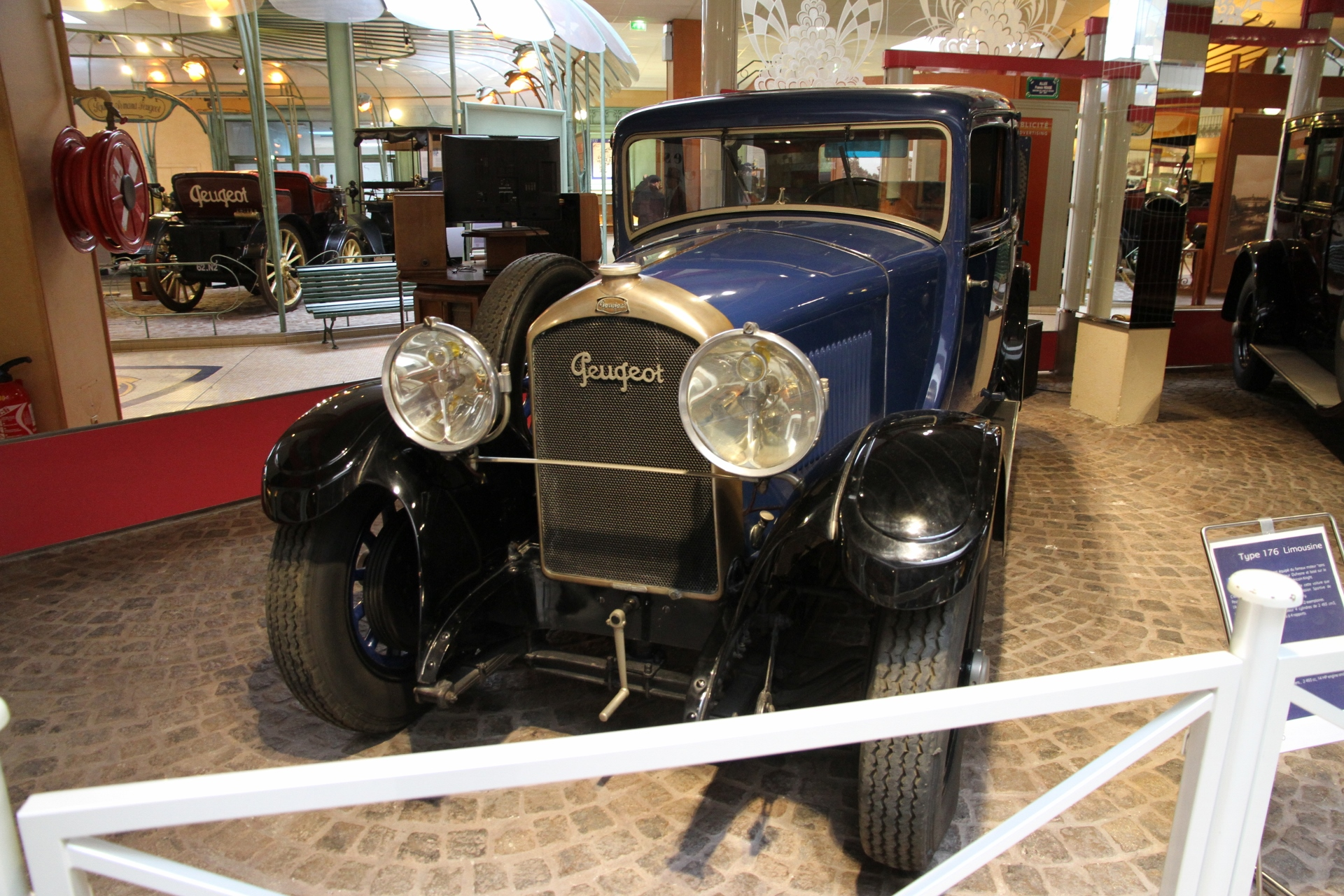 Paugeot 176 Limousine